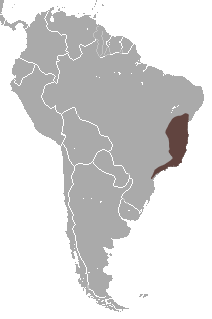 Gray Slender Mouse Opossum (Marmosops incanus) range